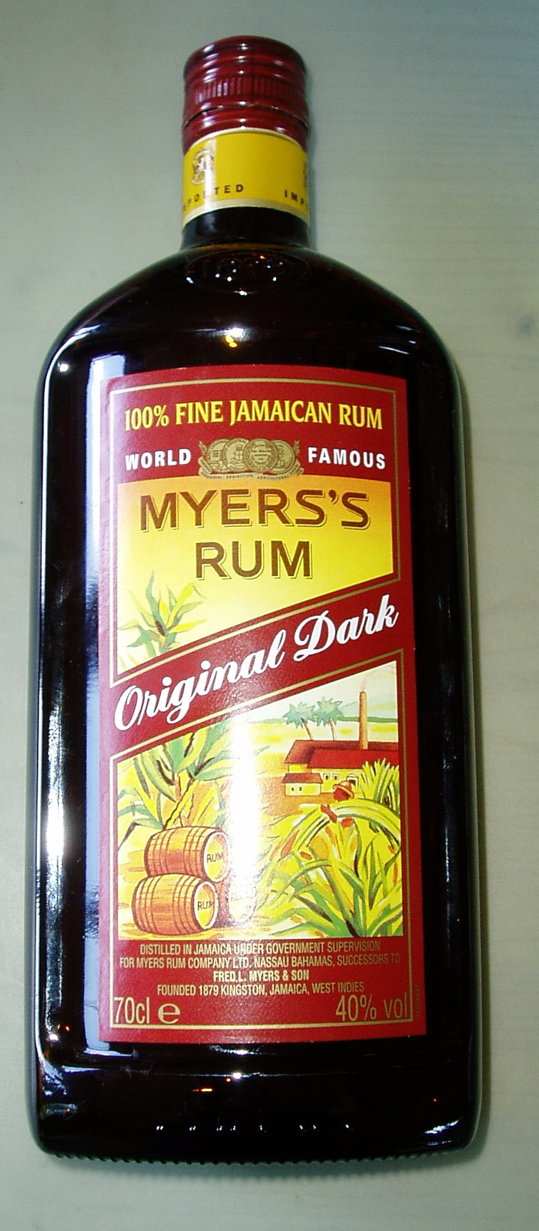 Myers's Rum from Jamaica WI